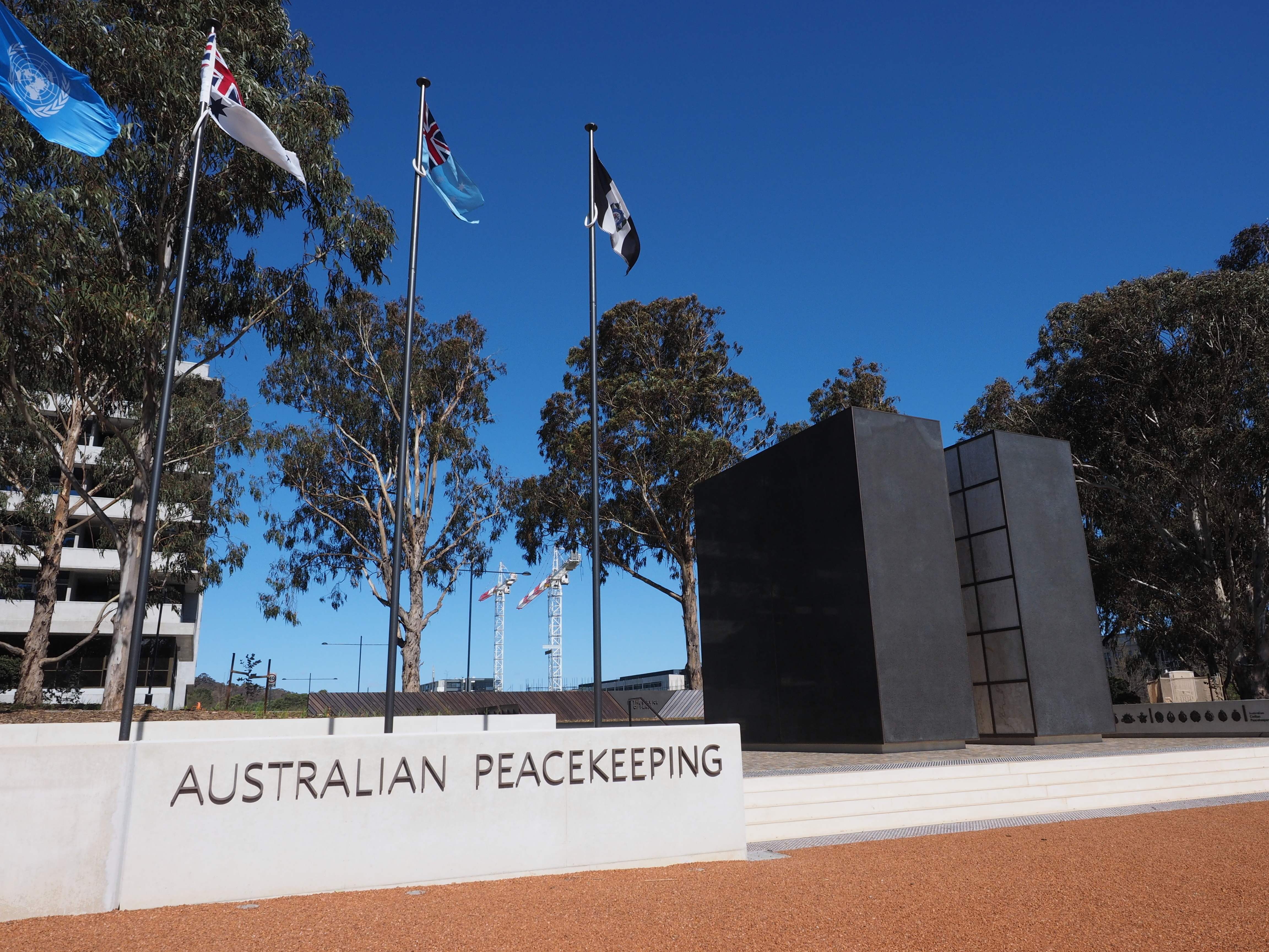 A general view of the Australian Peacekeeping Memorial